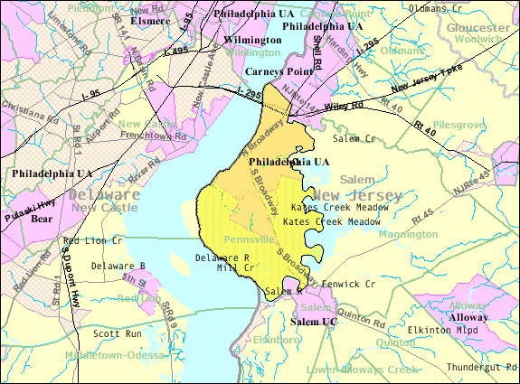 Census Bureau map of Pennsville Township